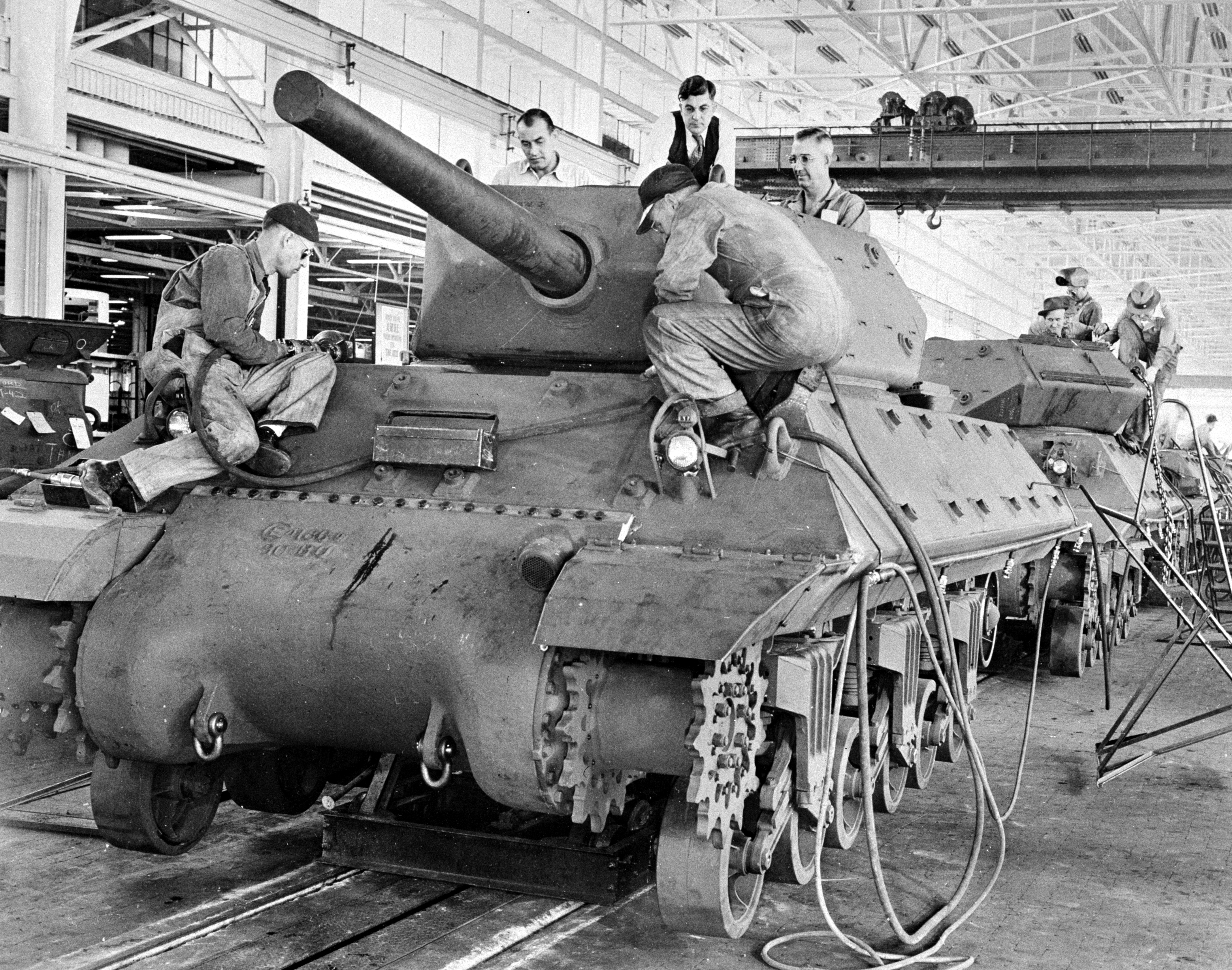 M-10 tank destroyer. The M-10 "tank destroyer," shown in mass production at General Motors tank arsenal. Designed with sufficient speed and firepower to seek out and demolish any armed vehicle of the enemy. The new destroyer already has been tested in battle.